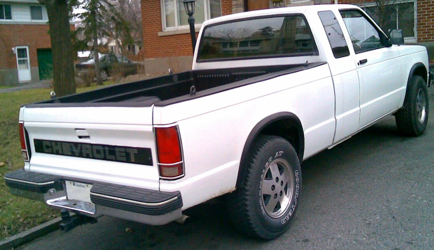 1982-1993 Chevrolet S-10 photographed in Montreal, Quebec, Canada.